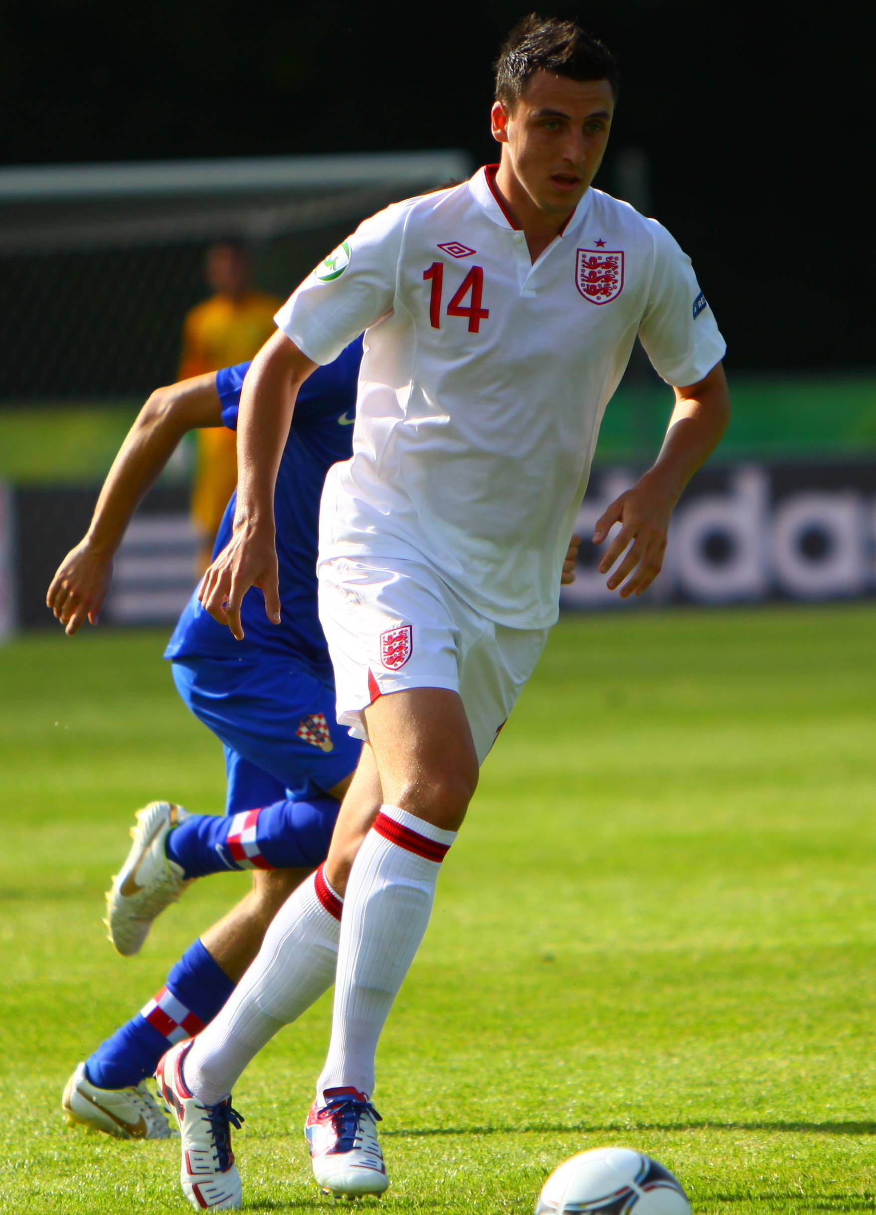 George Thorne playing for England U-19